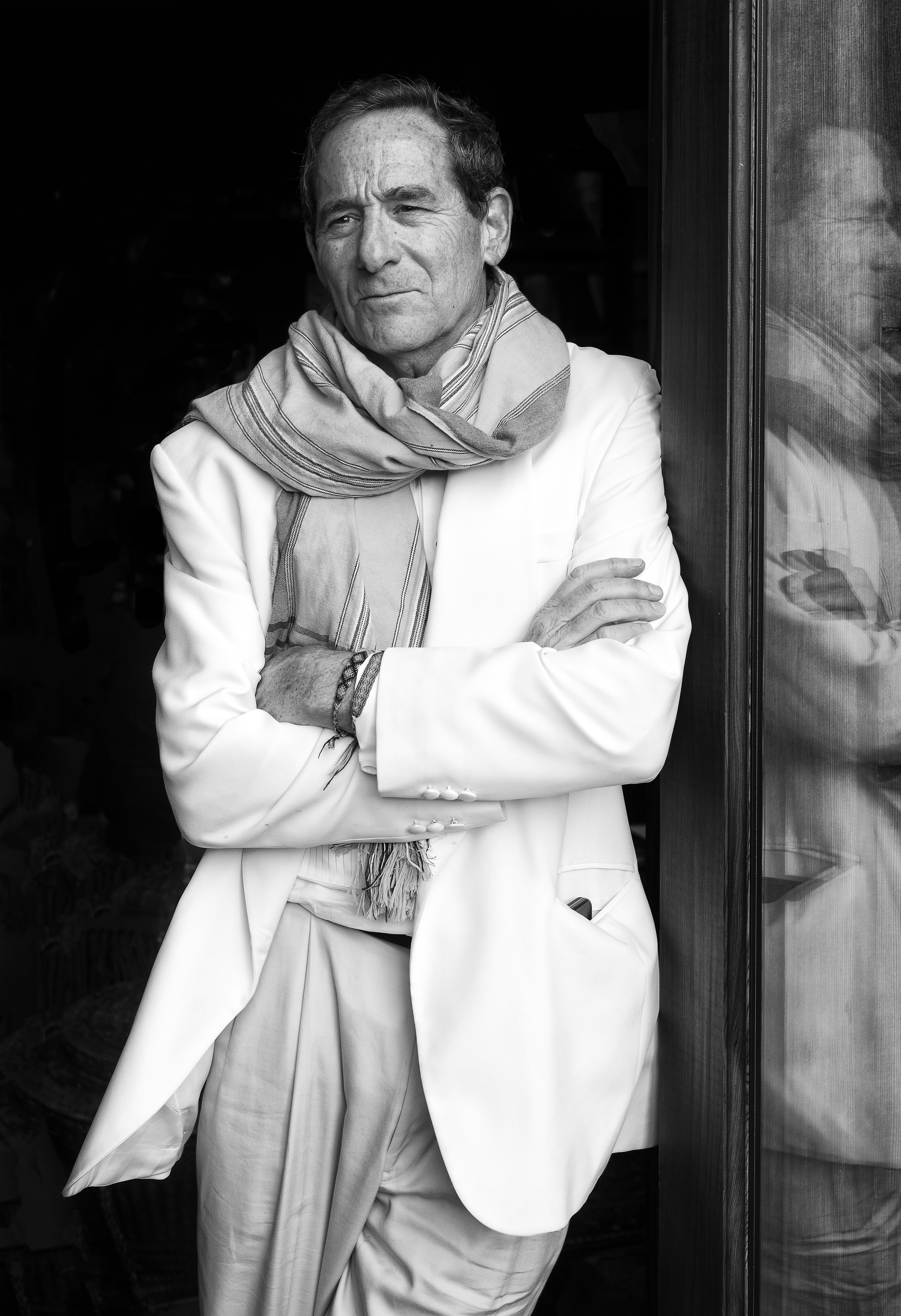 Robert Rosenthal in 2018 by Christopher Michel